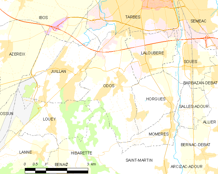 Map of French municipality